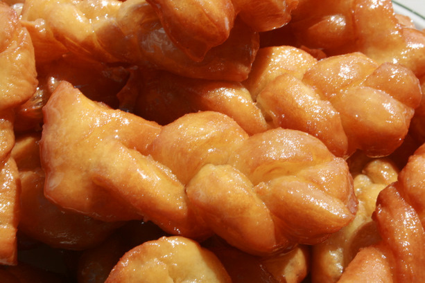 When a South African who has been away from home for a while thinks of home, this dish is normally one of the things he/she will think of.